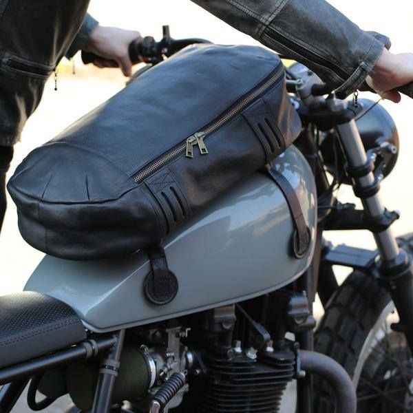 leather tank bag produced by Oaks & Phoenix Denmark - Oct 2018